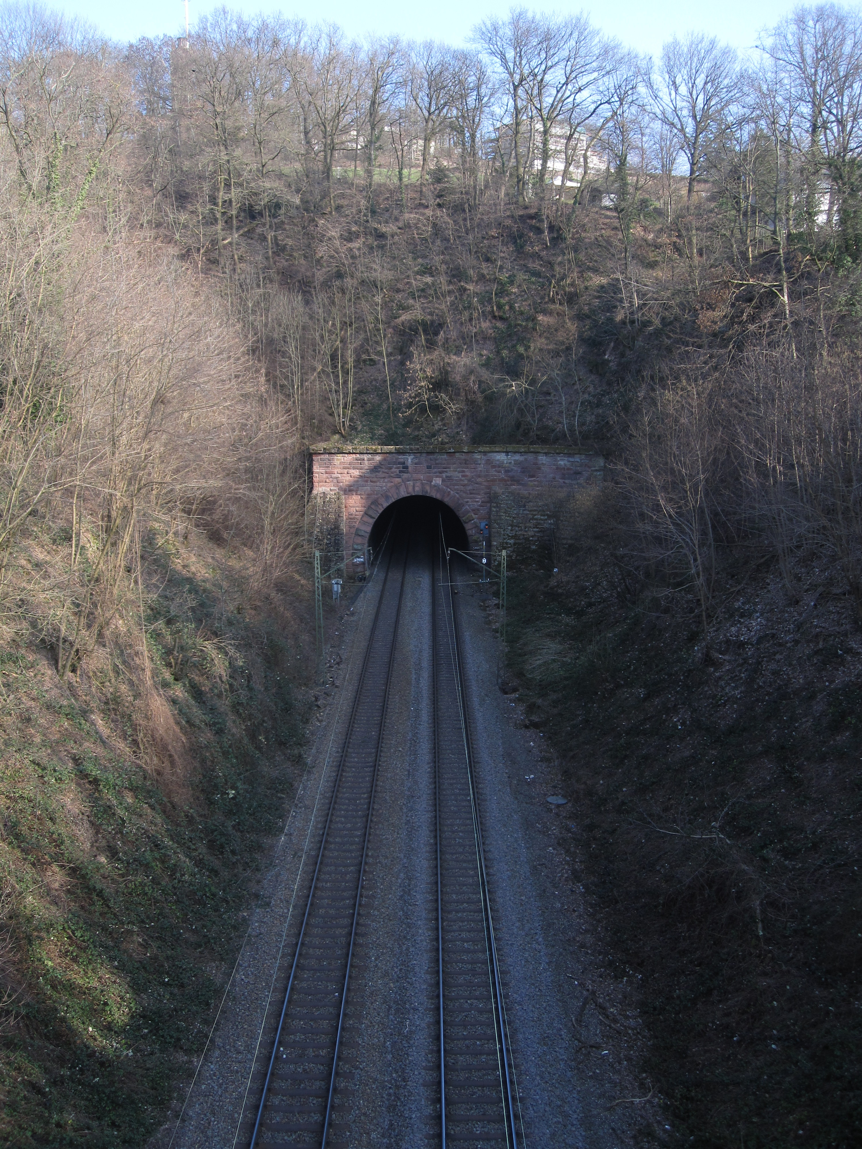 Western entrance/exit of Lorettoberg tunnel